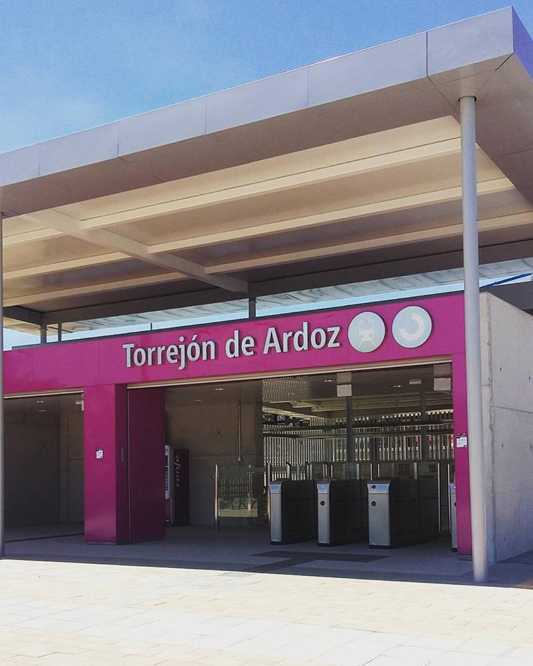 Southern entry of the Station of Torrejon de Ardoz to city´s Parque del Ocio and Fairgrounds.